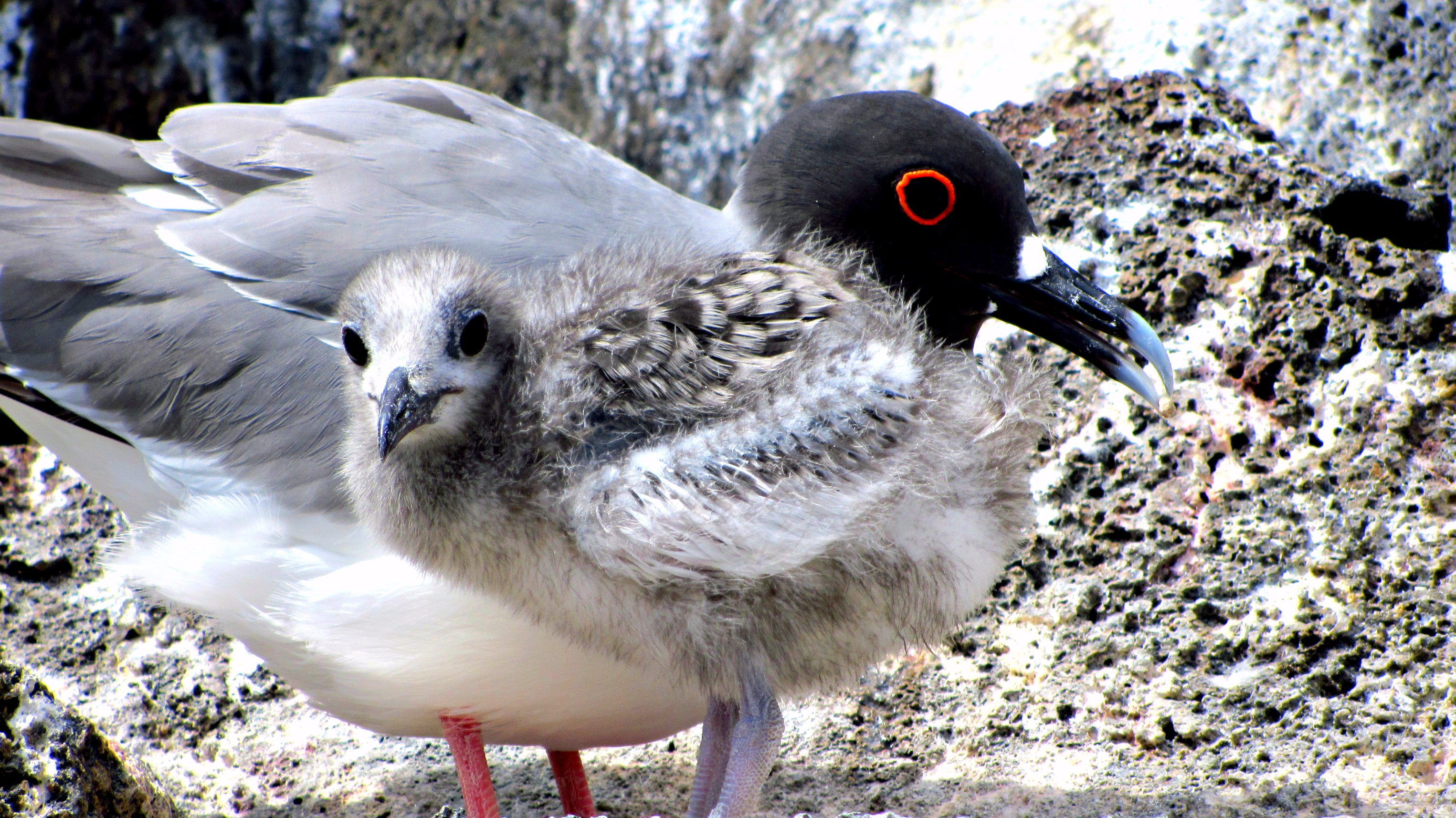 An adult Swallow-tailed Gull with a chick on Genovesa Island, Galapagos Islands, Ecuador.